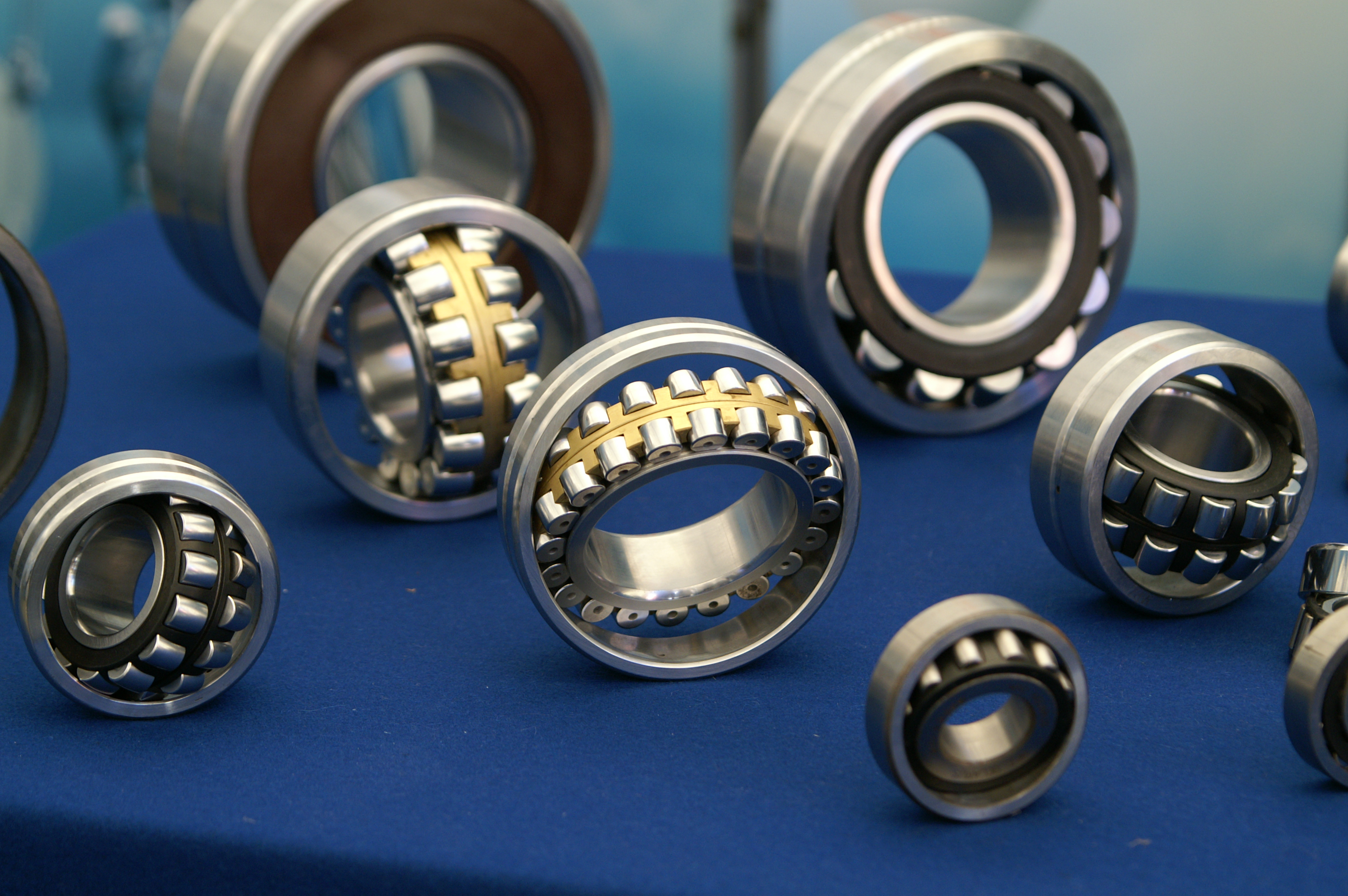 Various bearings on exhibition in Minsk